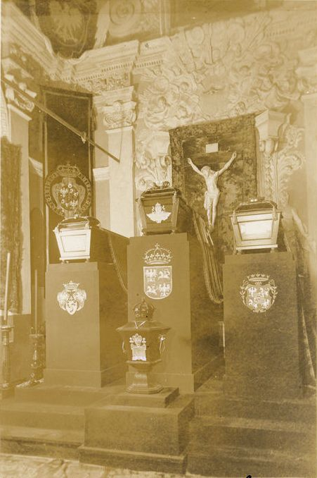 Sarcophagus of King Alexander Jagiellon (middle), queen Barbara Radziwiłł (left) and Elizabeth of Austria (right) on display in Vilnius Cathedral after their discovery after a flood in 1931